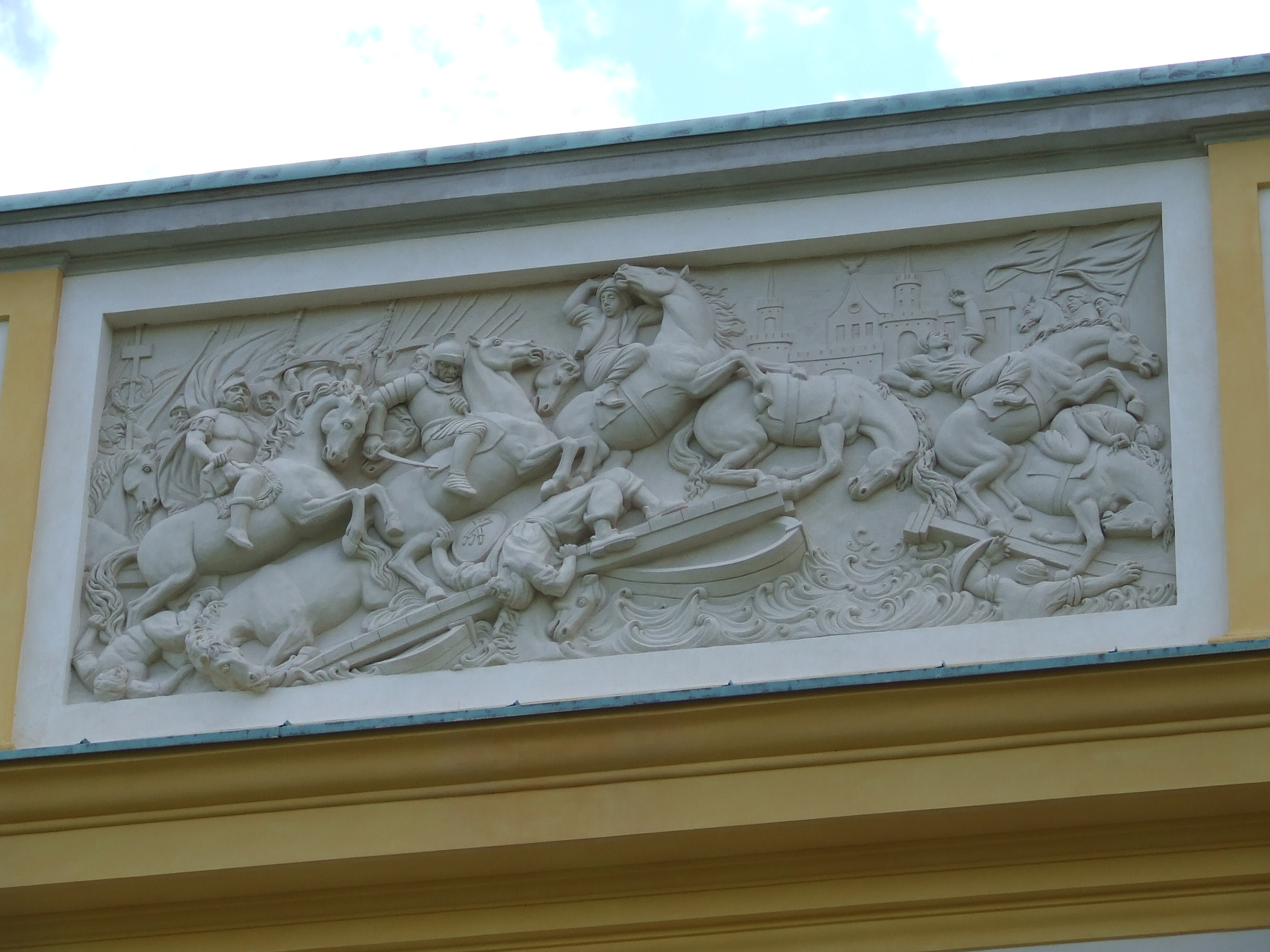 Battle of Parkany in 1683, emboss on the wall of Wilanów pallace in Warsaw